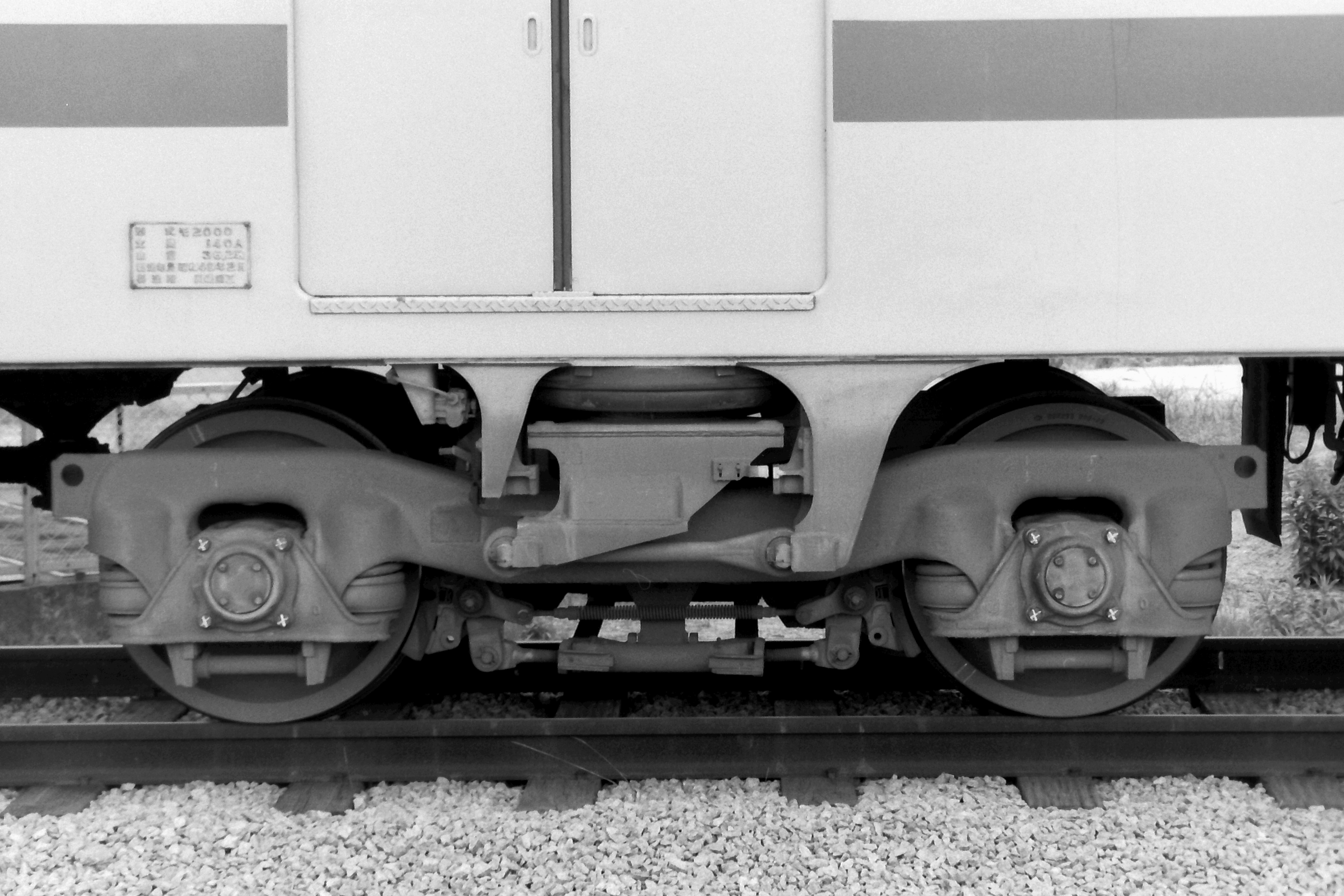 KW-9 bogie truck on Nishitetsu 2000